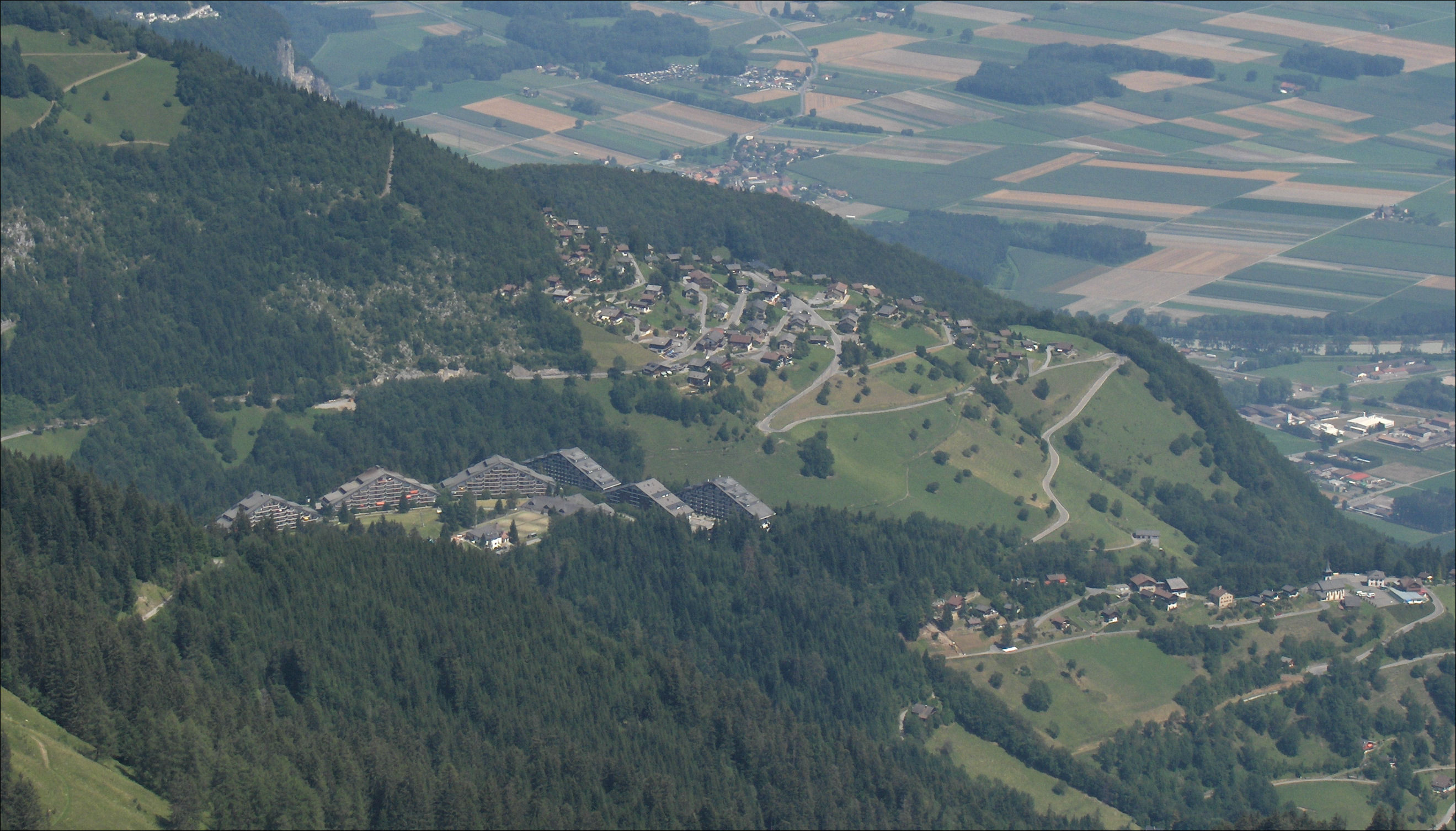 Torgon (middle), La Jorette (left) and Revereulaz (right) (Valais / Switzerland) Picture taken from the Tour de Don Author: Dake